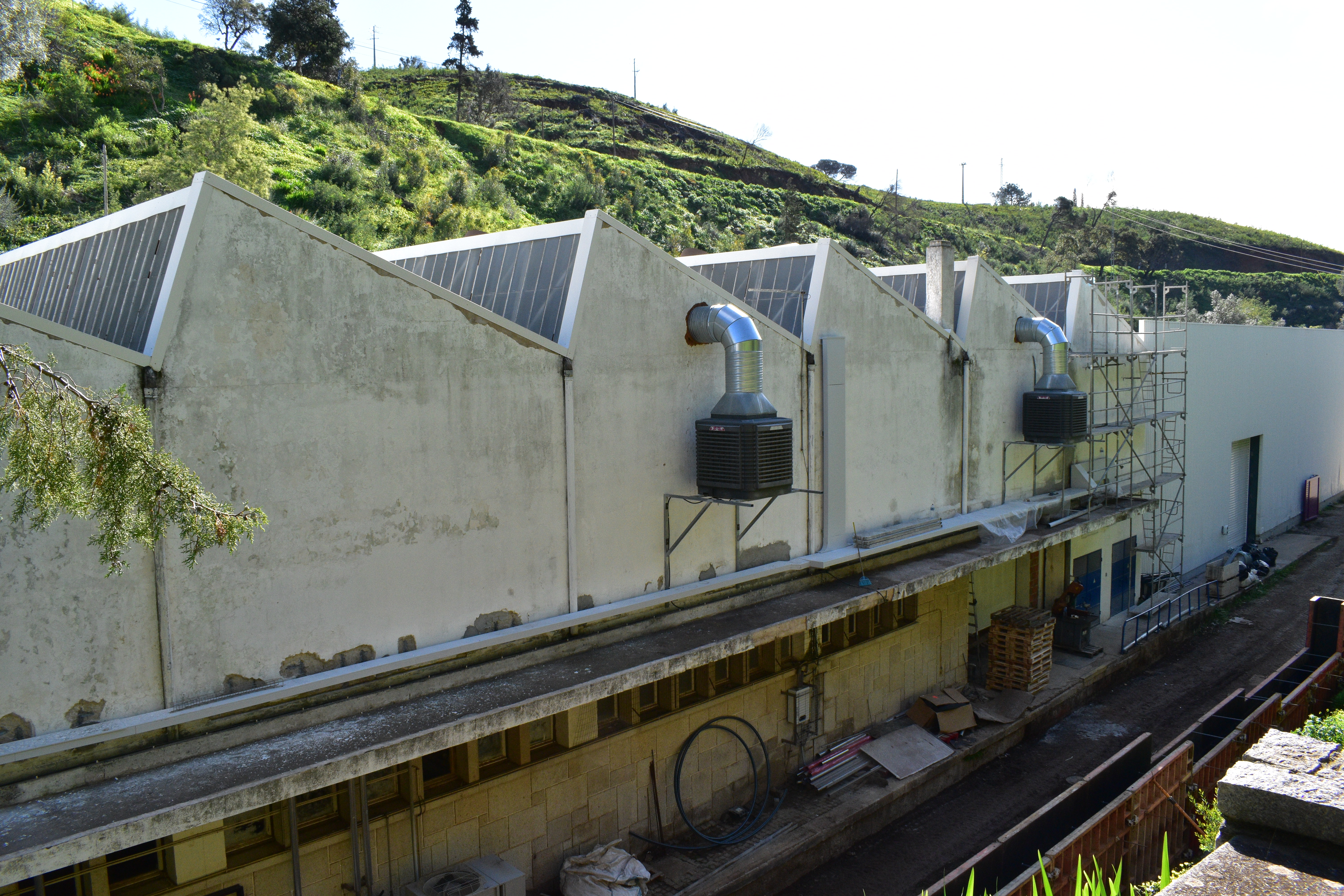 Bottling plant at the Monchique Spa, in southern Portugal.